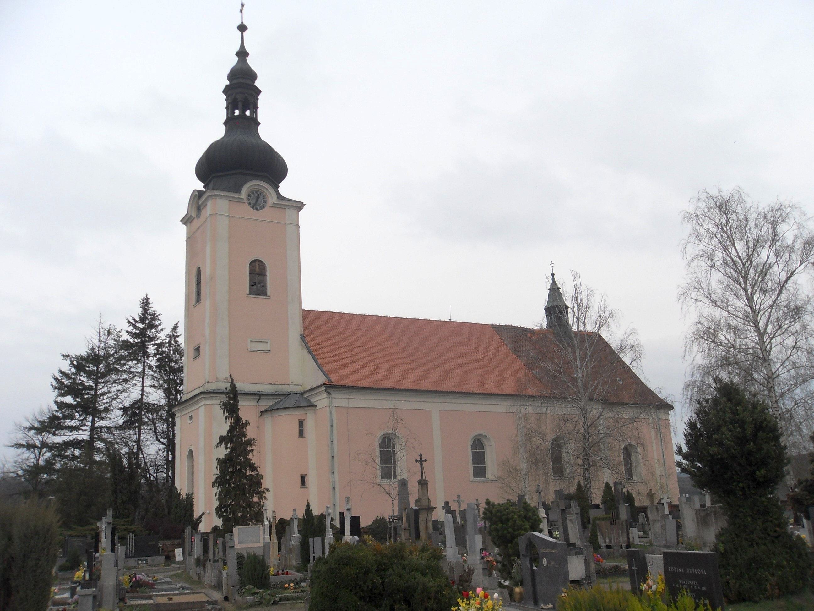 Church of Saint Nicholas, Oslavany, Brno-Country District, Czech Republic